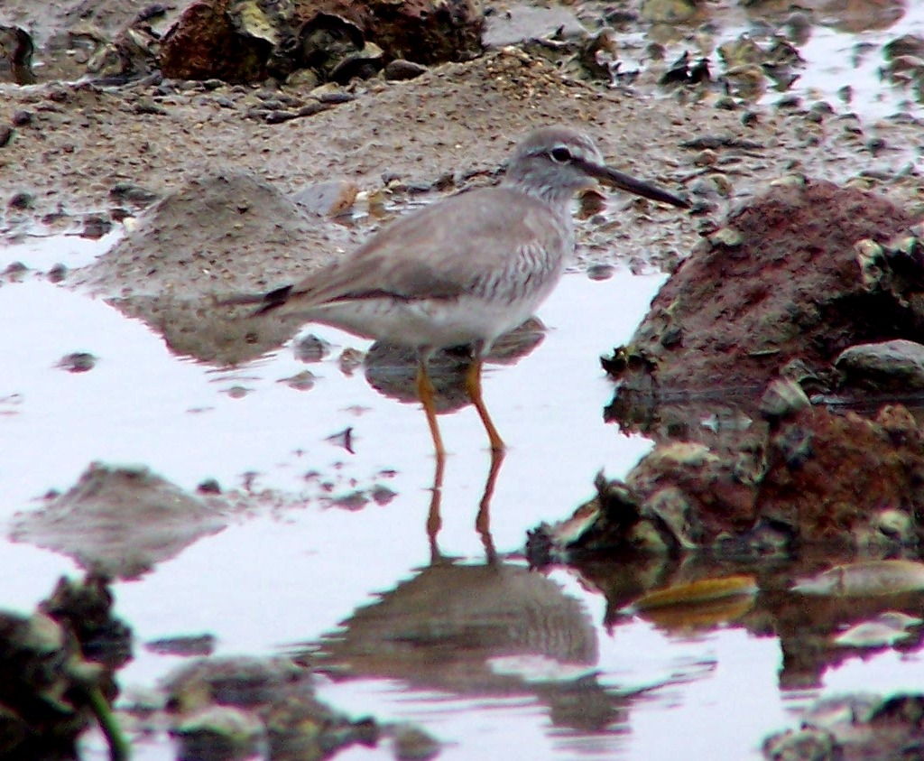 Grey-tailed Tattler